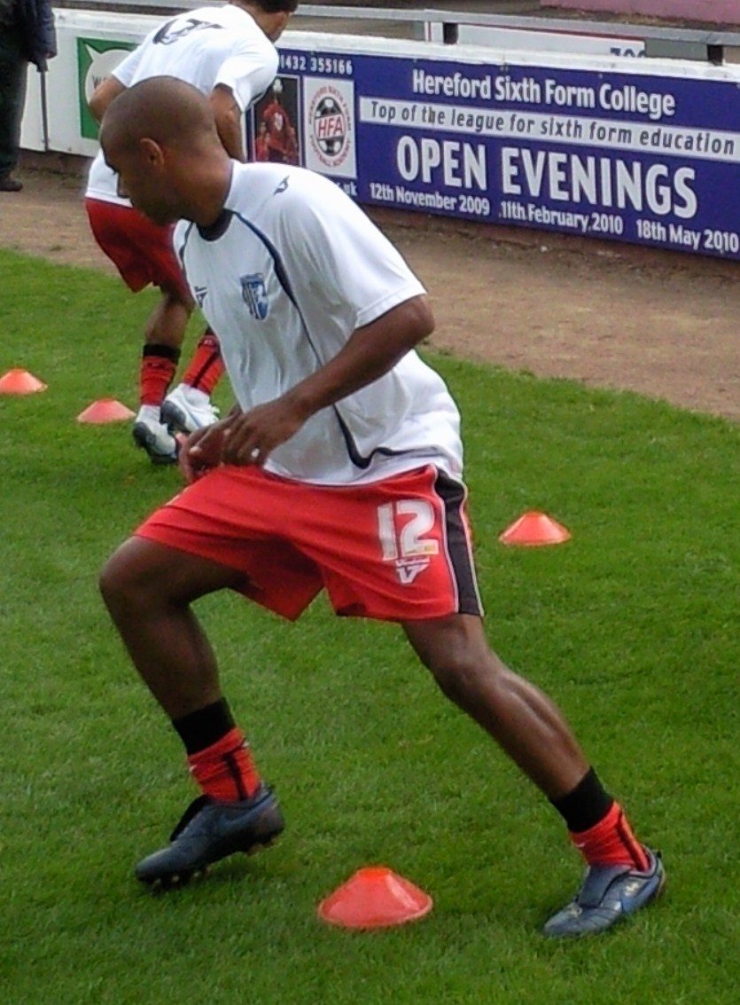 Chris Palmer, photographed on 14 August 2010